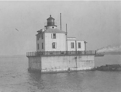 Undated United States Coast Guard photograph of Ashtabula Harbor Light (original here)